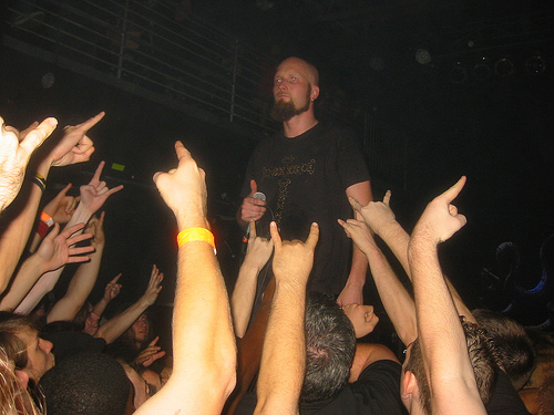 Jens Kidman vocalist of swedish band Meshuggah